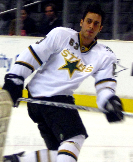 Photo by Matthew McPherson